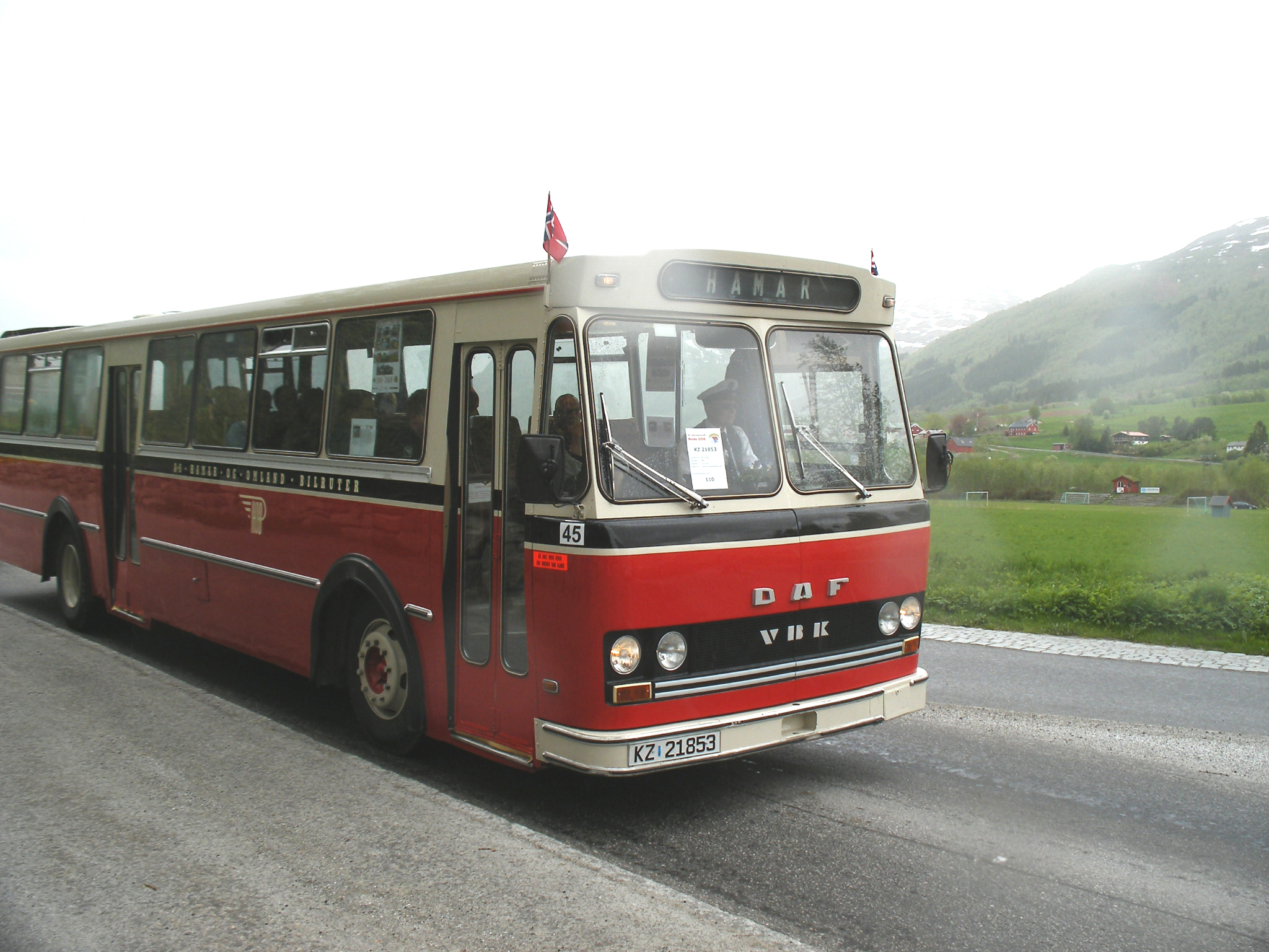 Old bus from Norway. TB160DS-605. VBK. AB Hamar og Omland Bilruter. Hamar